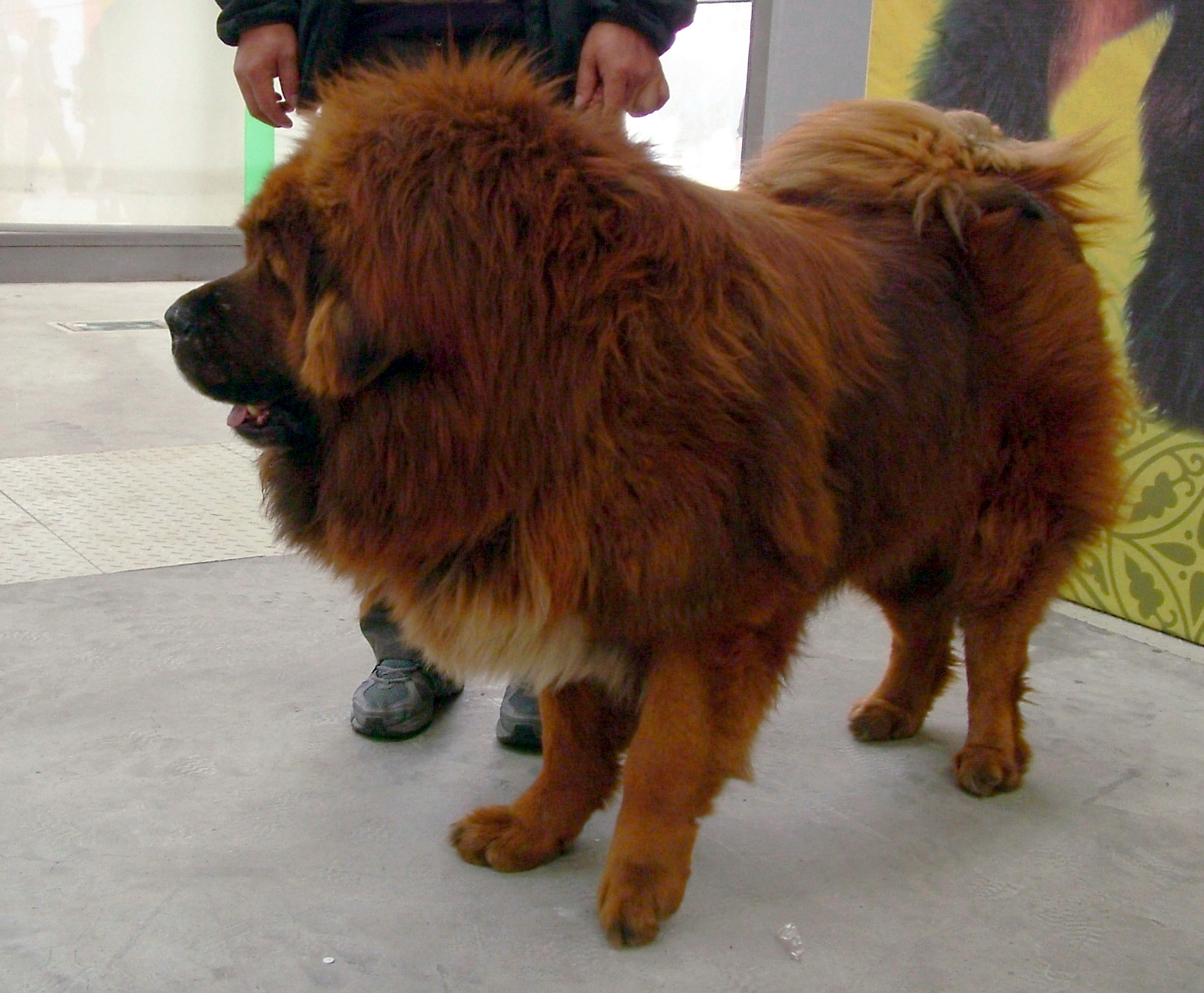 chinese mastiff often referred to as a chinese bred tibetan mastiff - zangao